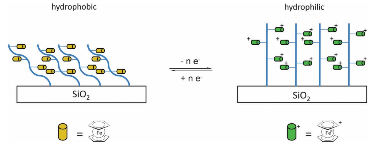 Illustration of the change in wettability of a silica surface with a redox change of ferrocene functionalities on a polymer bound to the surface